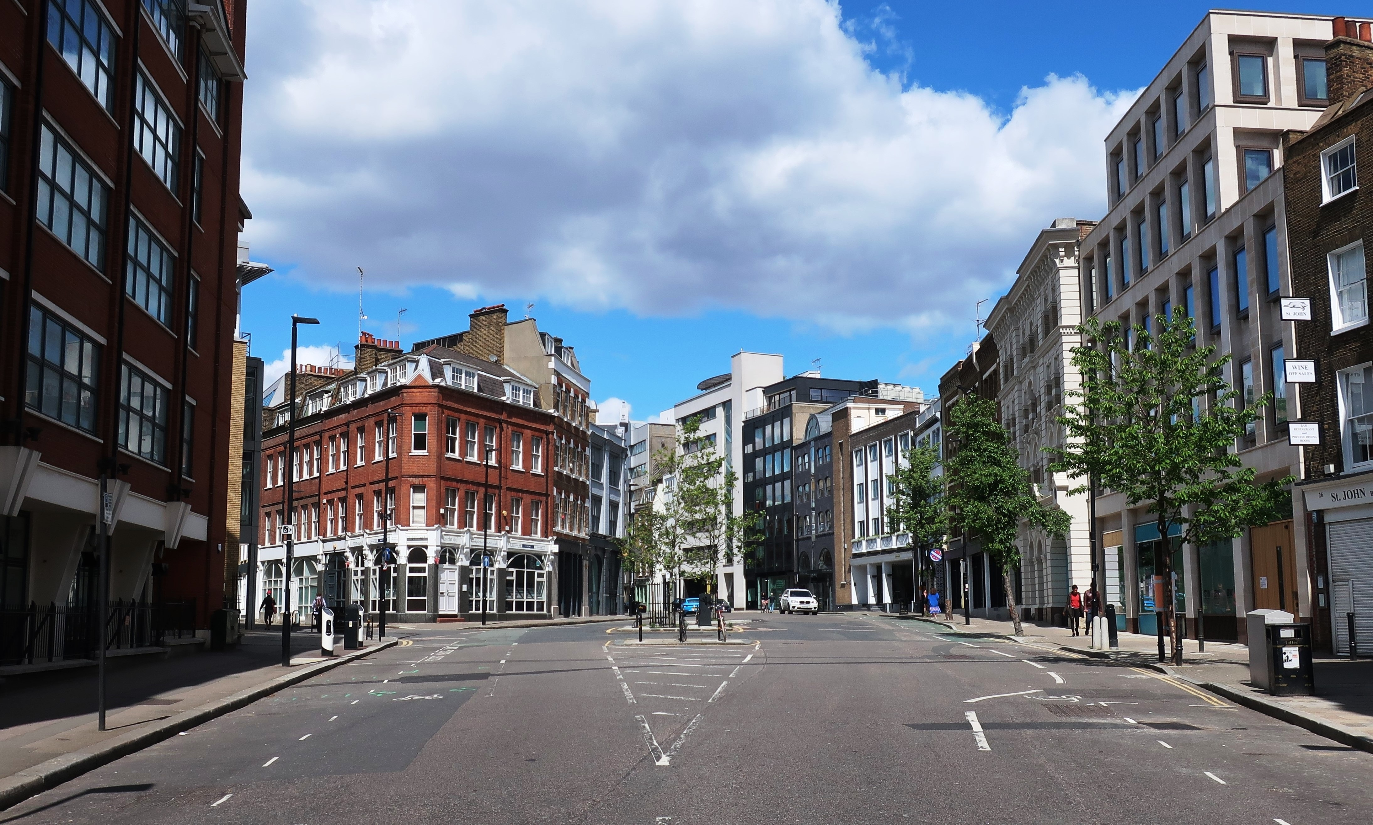 Southern end of St John Street, London EC1, looking north. The broadening of the street at this point, and the "island" in the middle of the road, mark the site of Hicks Hall (1611–1778), the former sessions house for the county of Middlesex.